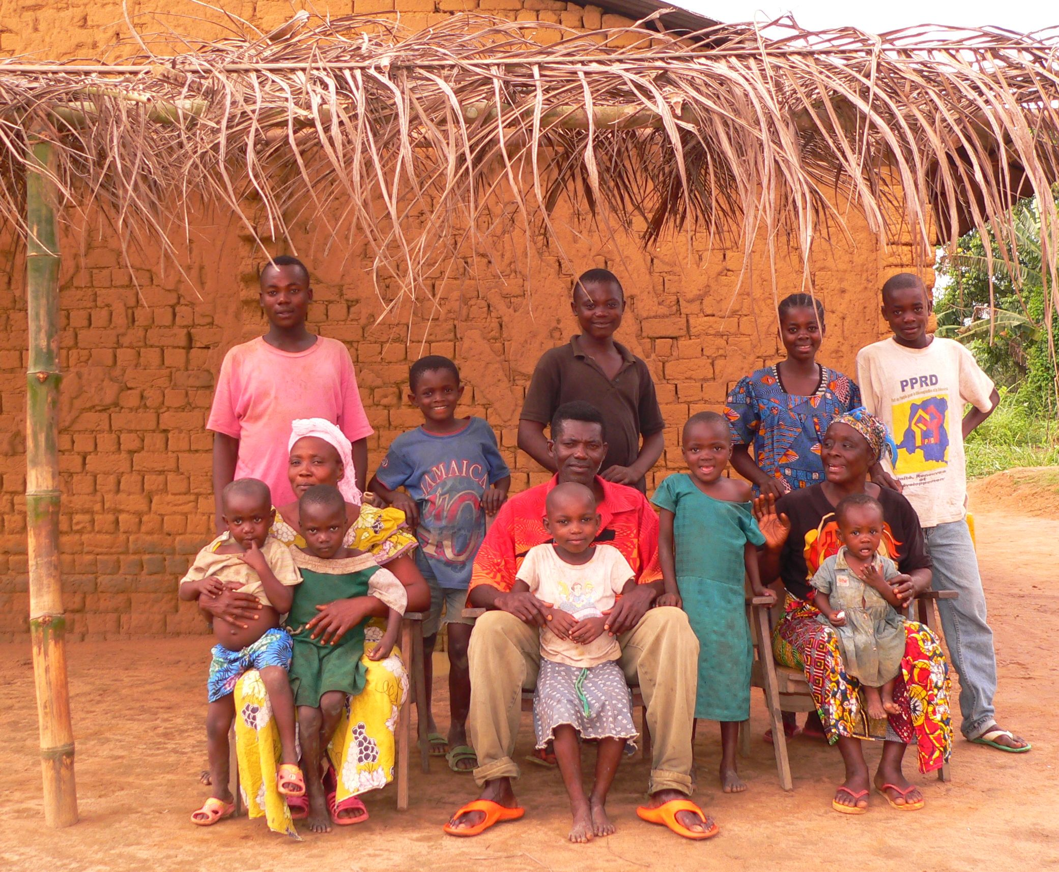 Family belonging to the Mongo group of people.